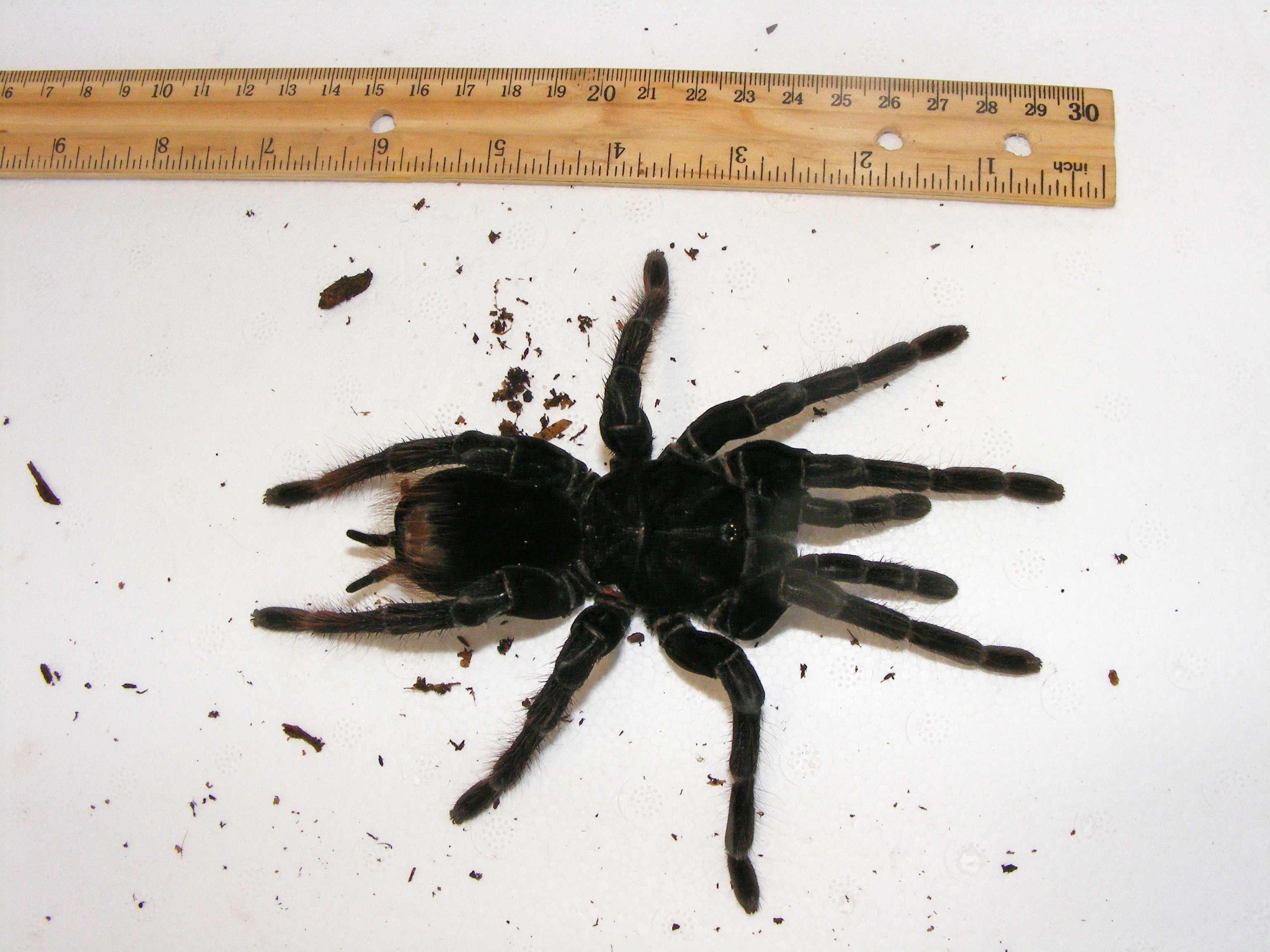 Female Pamphobeteus antinous, dorsal view.